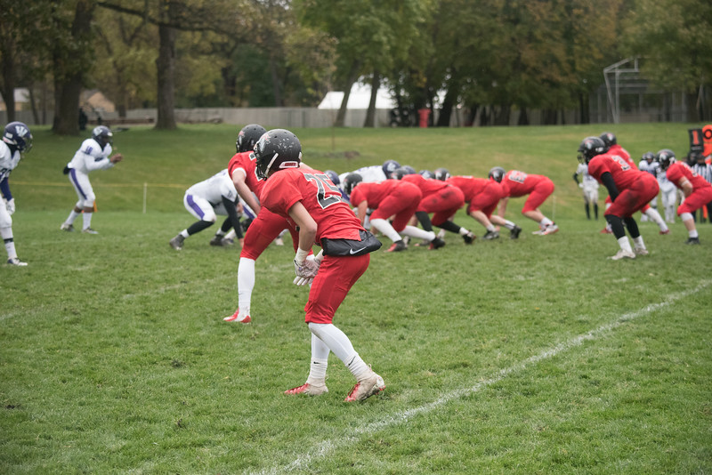 This is a photo of the Martin Luther College football team in interscholastic competition in the 2019 season. The photo was taken on the campus of Martin Luther College in New Ulm, MN.